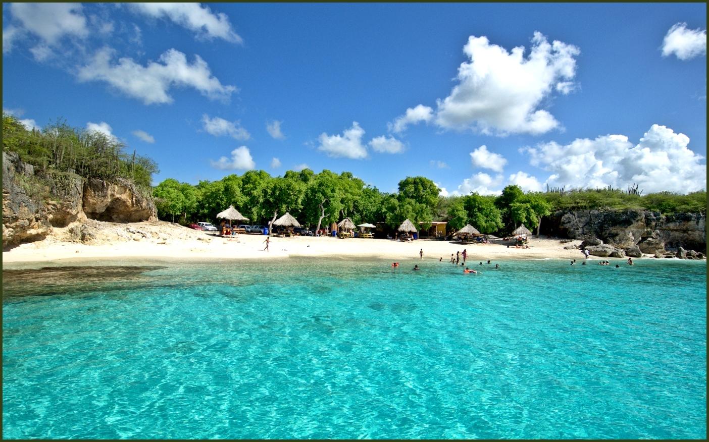 The beach at Kleine Knip, seen from a boat.